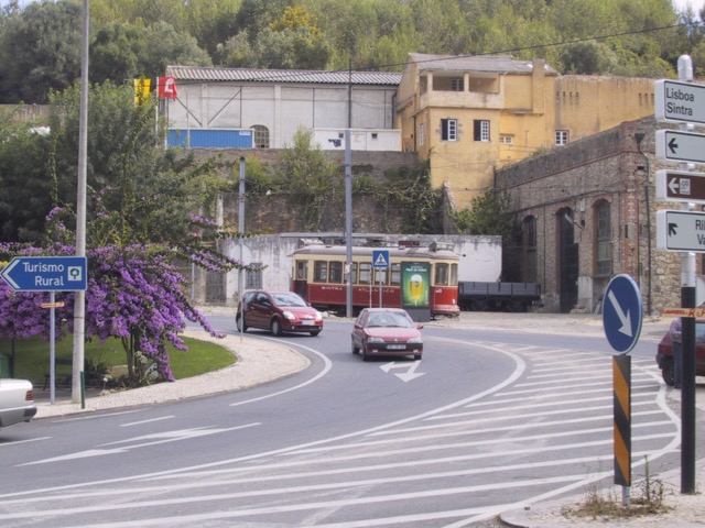 Ribeira short before demolishing of the old depot.